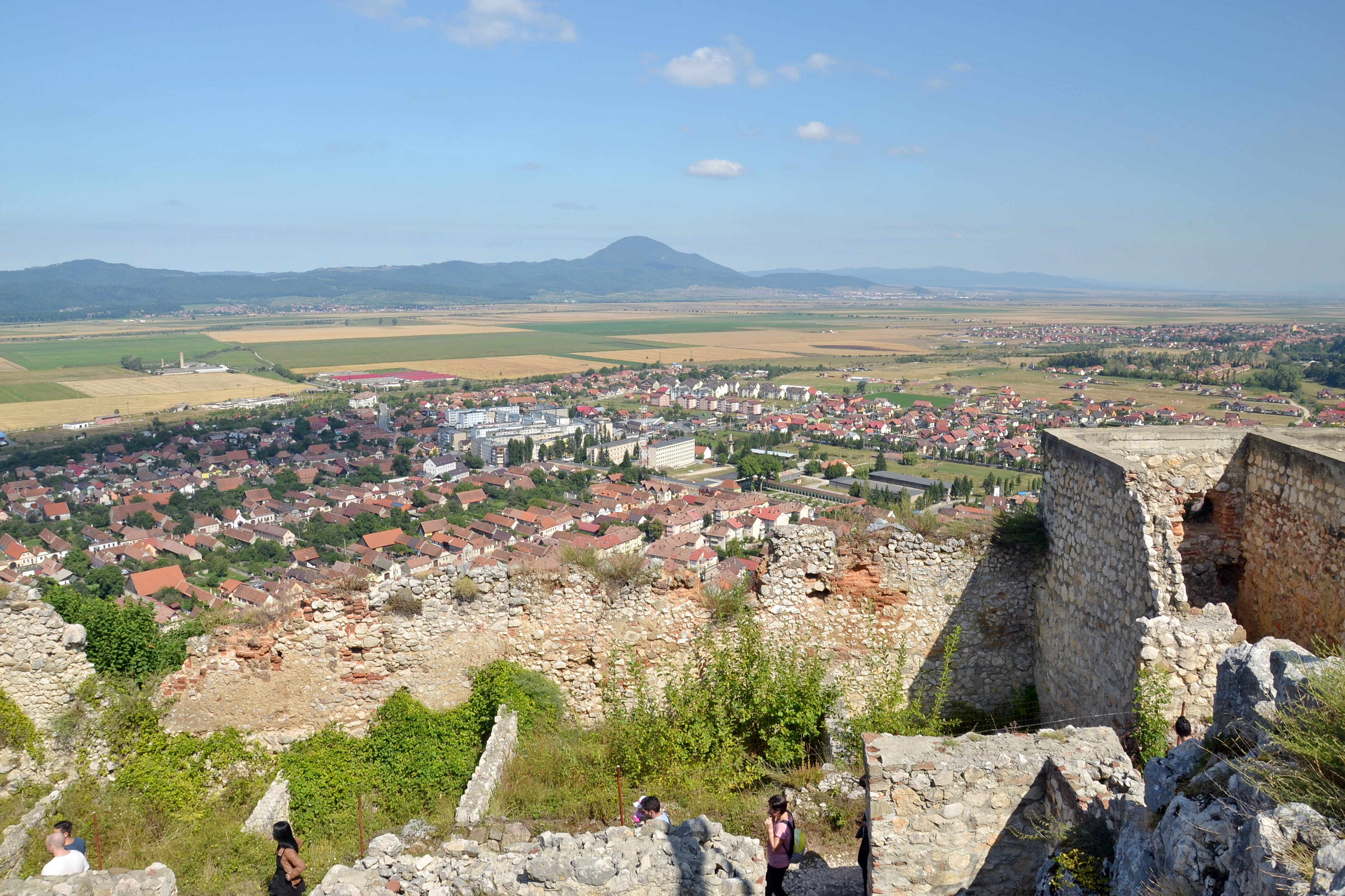 Râşnov (Barcarozsnyó, Rosenau), Romania - view from castle